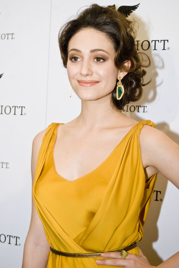 Emmy Rossum at JW Marriott Chicago Grand Opening in Chicago, IL, USA on March 8, 2011. Photo by Adam Bielawski